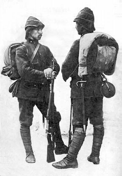 Turkish soldiers. The beginning of the 20th century.